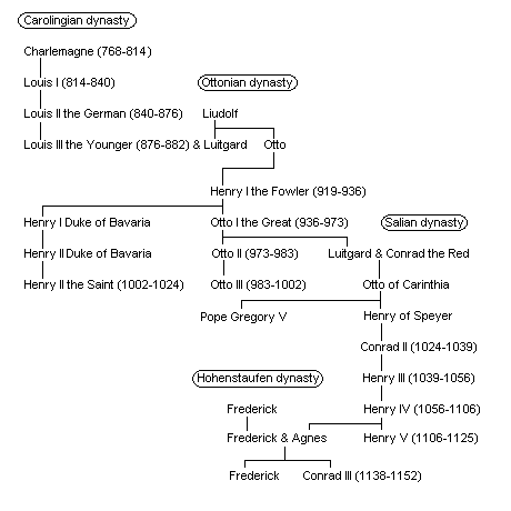 Family tree of the Ottonian and Salian dynasty (created by Gogafax) History of Image:Ottonian Salian dynasty.JPG 2008-04-18T01:26:34Z タチコマ robot (Talk